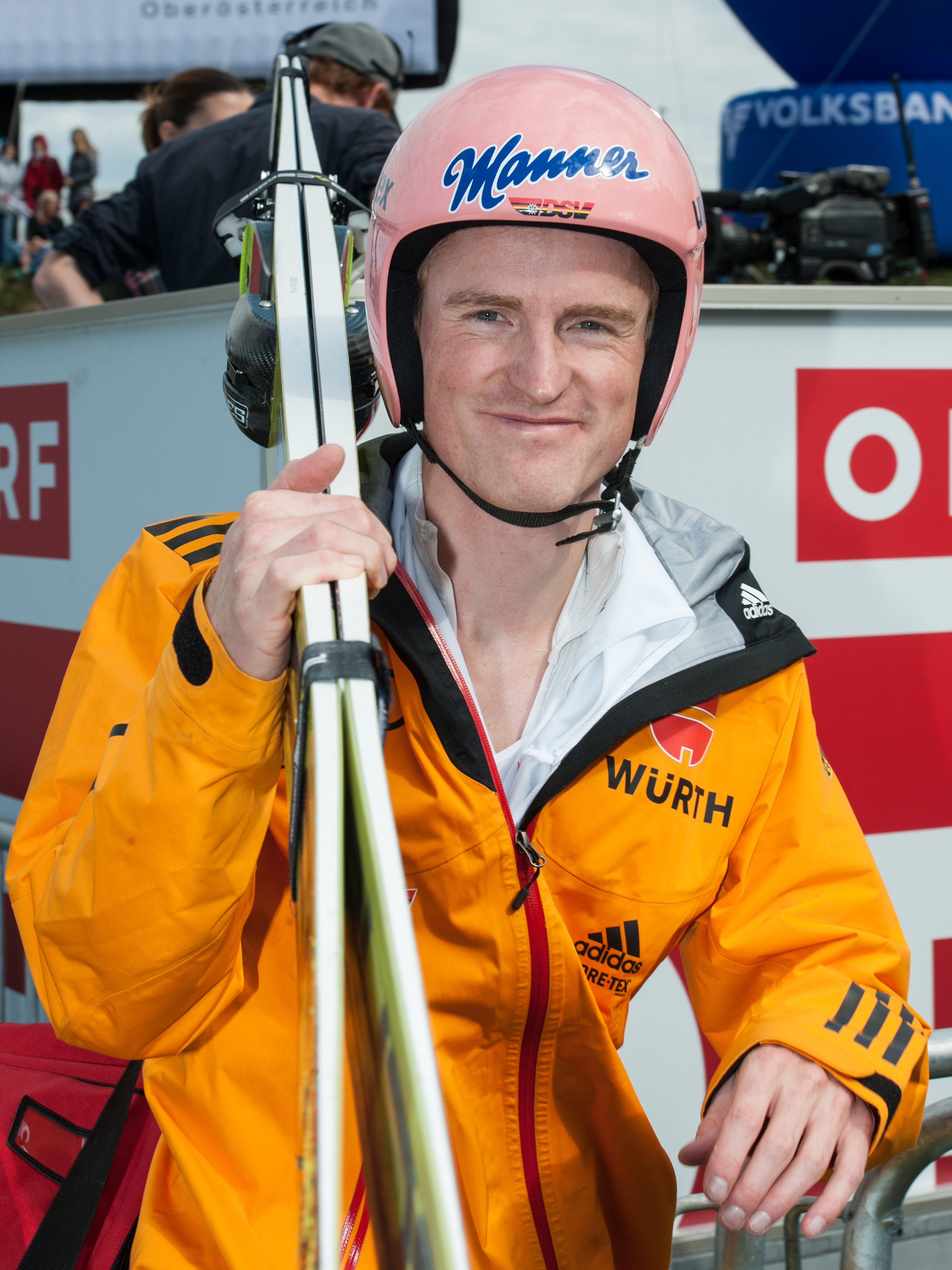 Fis Ski Jumping Summer Grand Prix in Hinzenbach, Upper Austria, 2015-09-27: Severin Freund